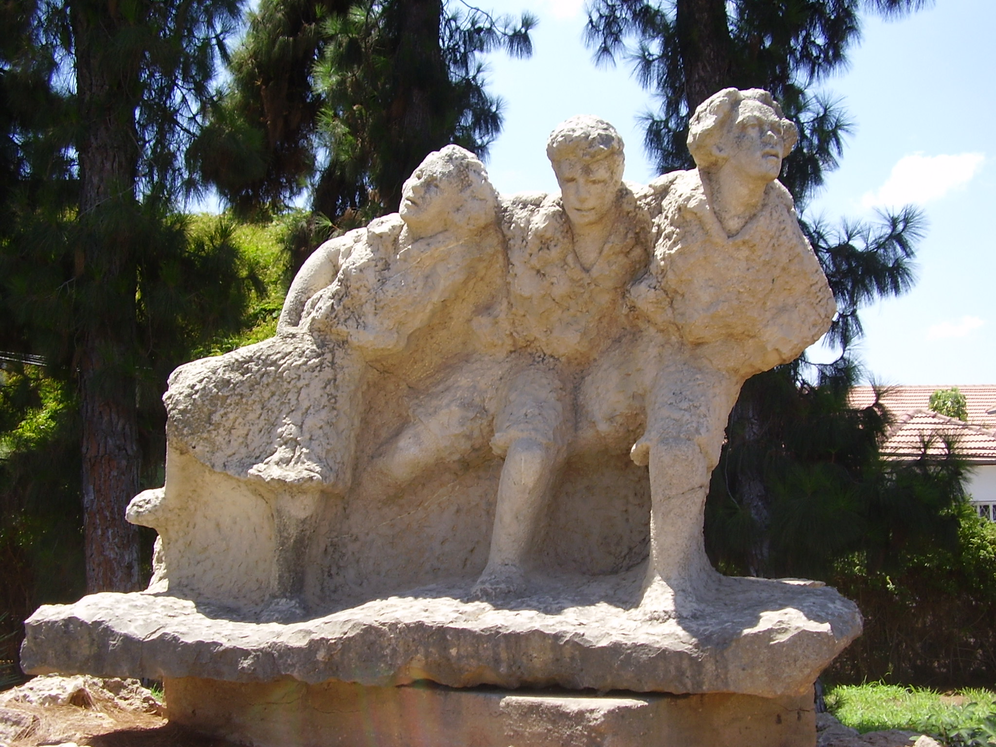 the hora dance by batia lychansky in kfar saba, israel ריקוד ההורה - פסל של בתיה לישנסקי בכפר הנוער אונים בכפר סבא